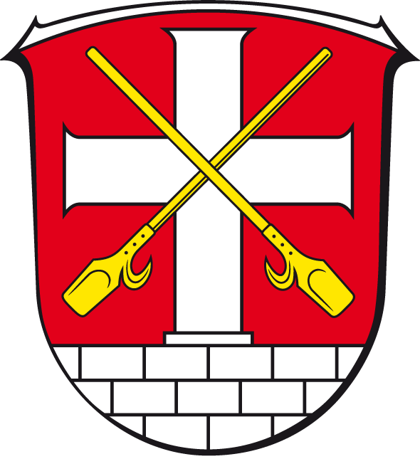 Coat of Arms of Ransbach, part of Hohenroda